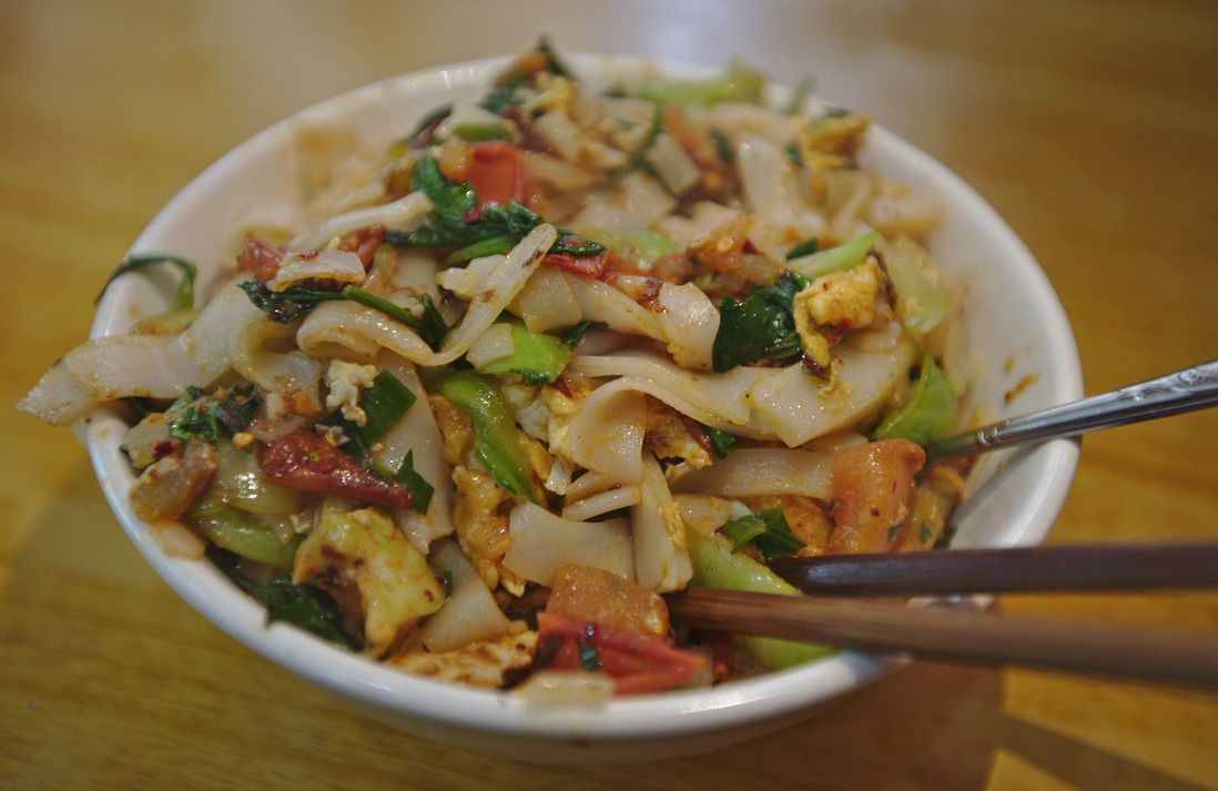 Stir-fried juanfen noodles. As served in Qiubei, Wenshan prefecture, Yunnan province, China, 2015-12-02.